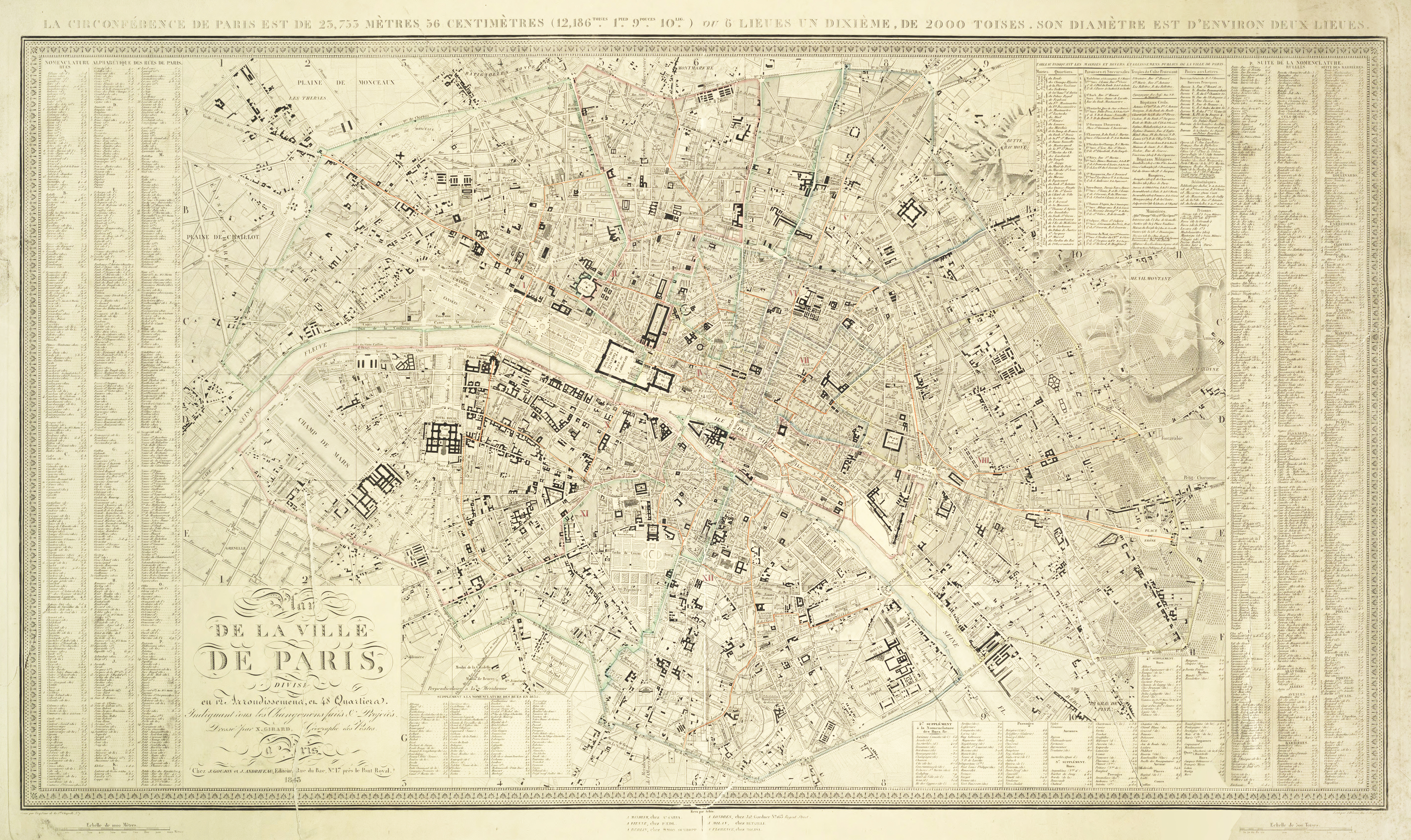 This 1843 plan of pre-Haussmann Paris illustrates the city's layout by arrondissement. In 1860, Haussmann proposed the annexation of a number of Paris communes, increasing the number of arrondissements from 12 to 20.